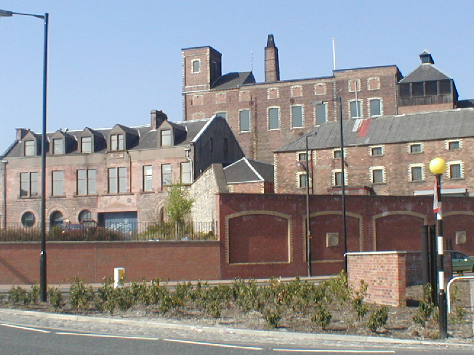 Photo of Maclays Brewery, Alloa in 2003.